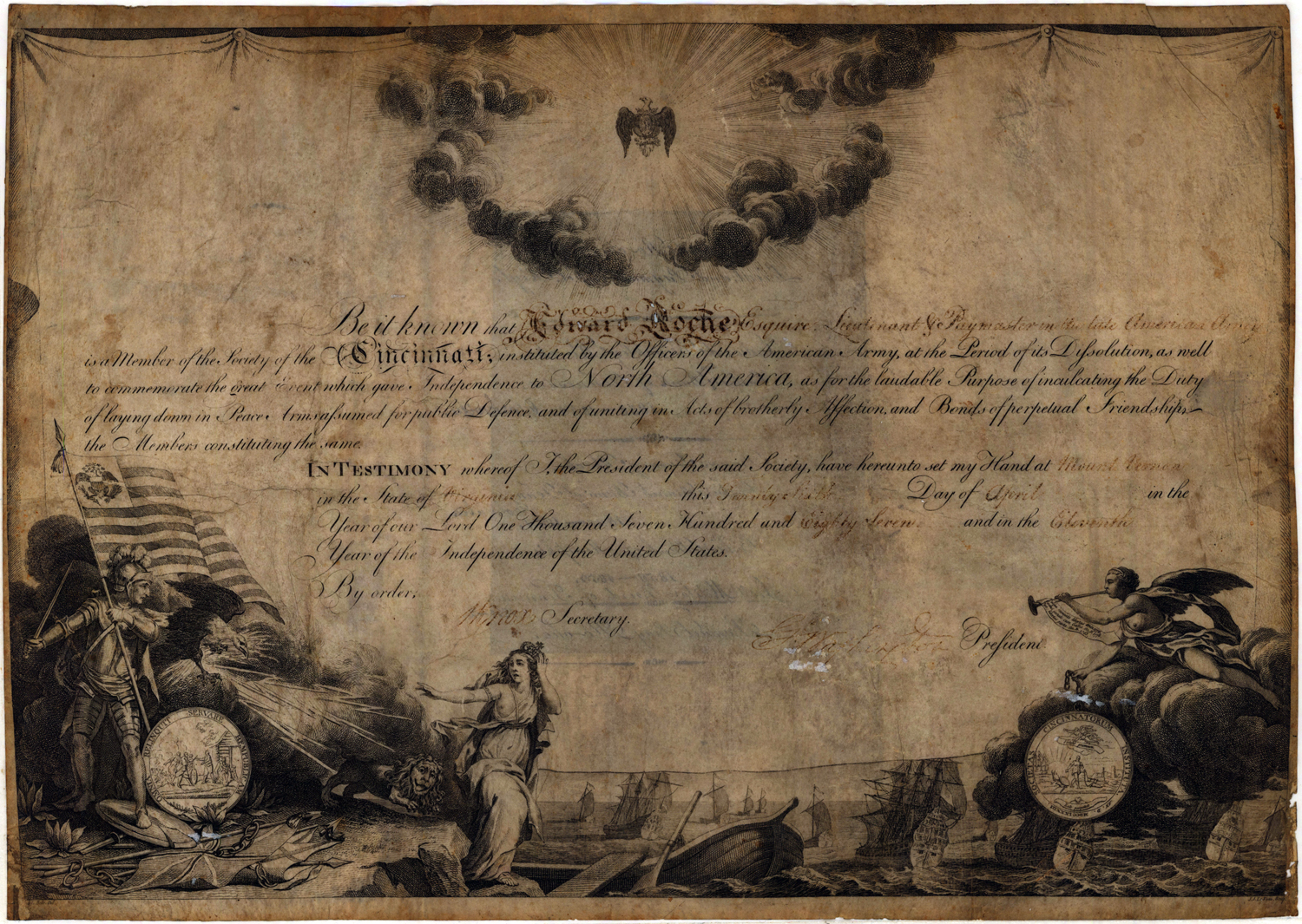 Edward Roche was a founding member of the early Delaware State Society of the Cincinnati. This certificate was issued to him, but eventually ended up in Tennessee with his descendants. It is now in the collection of the Tennessee Historical Society